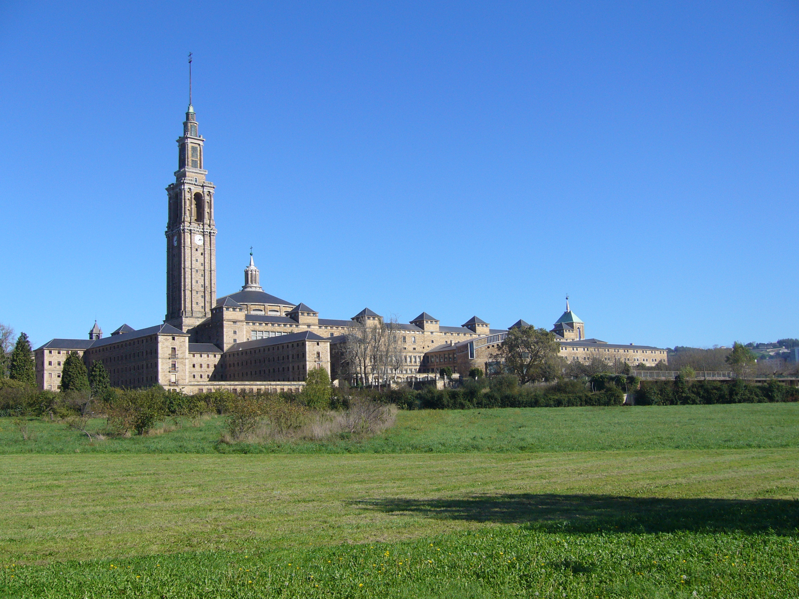 Universidad Laboral, Gijón